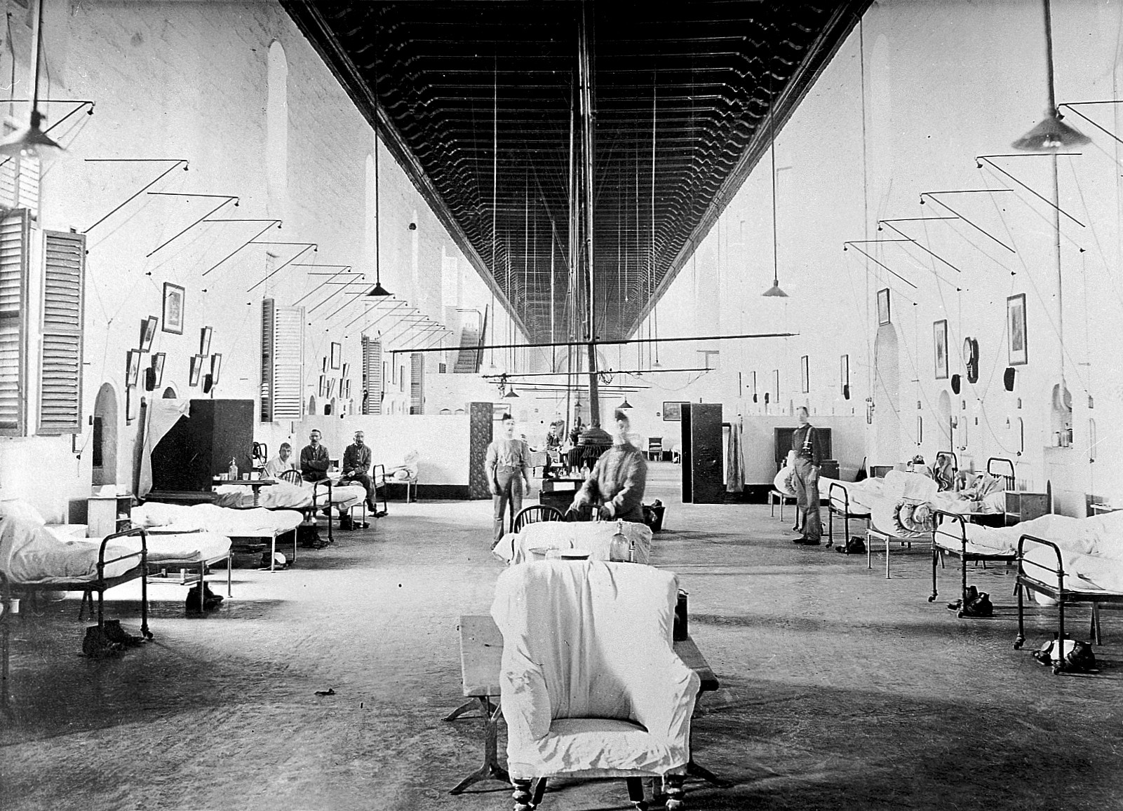 The Great Ward of the Station Hospital, Malta Archives & Manuscripts Keywords: NAVAL AND MILITARY; Ethelwald E. Vella; David Bruce; James Crawford Kennedy